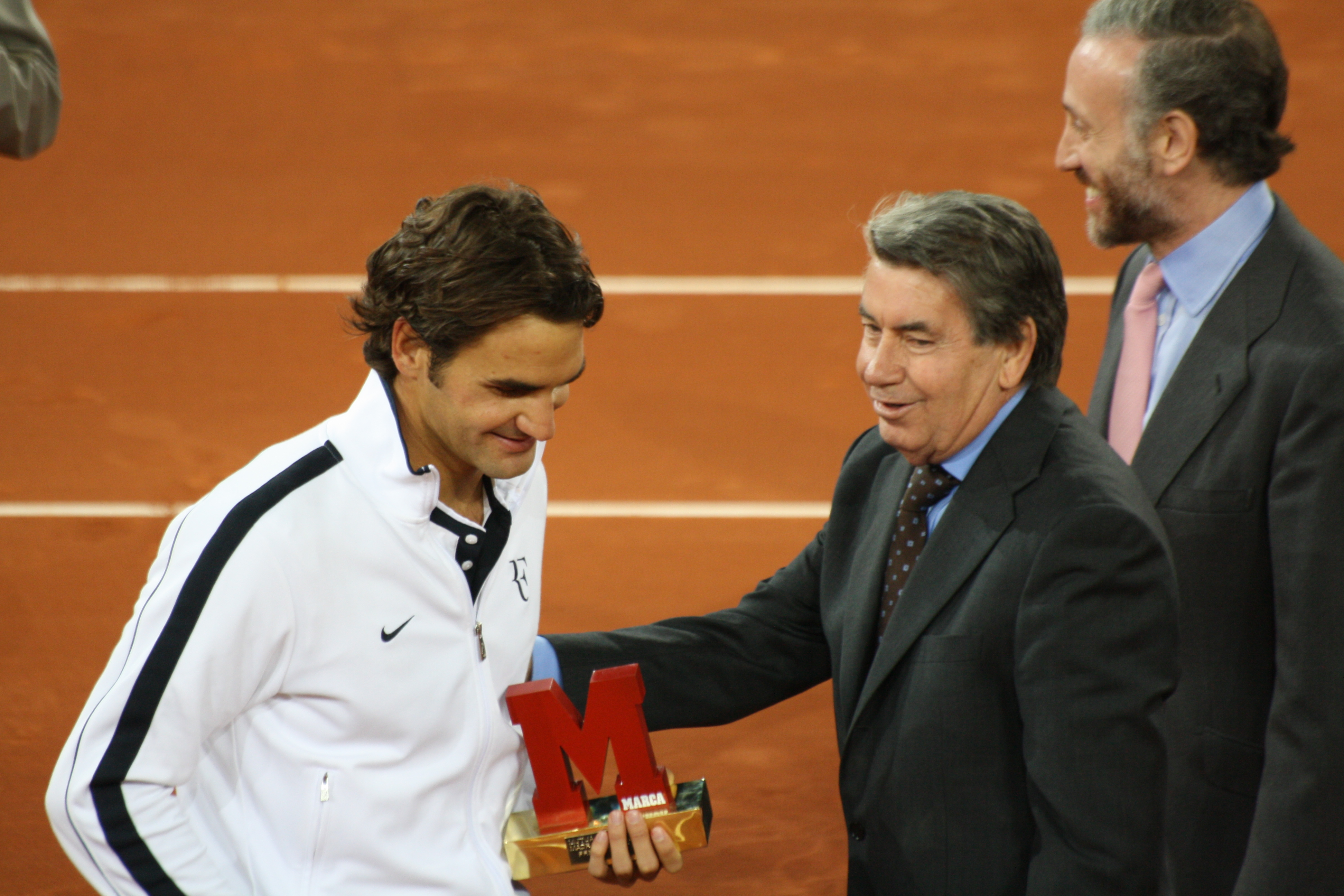 Roger Federer with Manolo Santana at the 2010 Mutua Madrileña Madrid Open